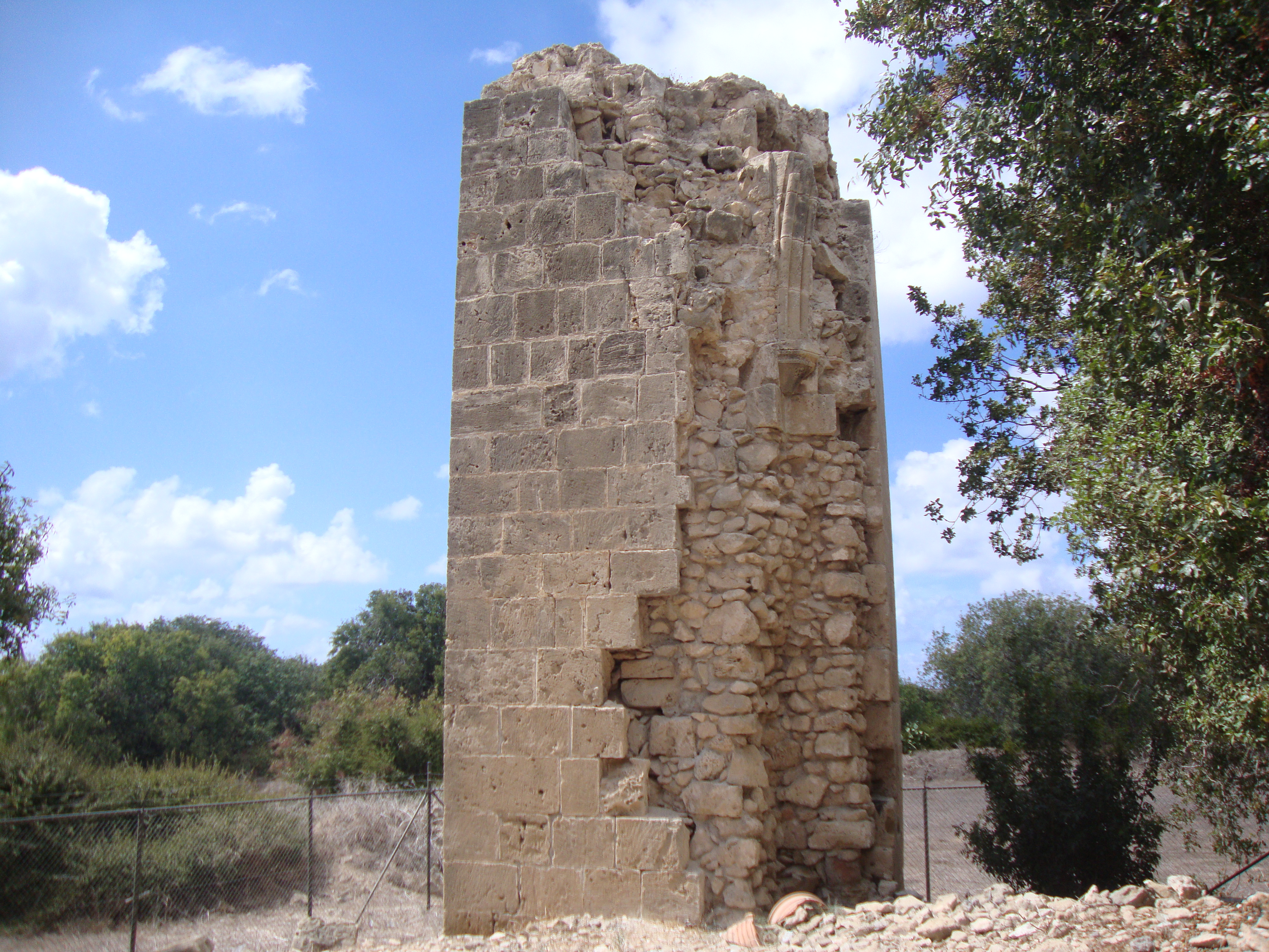 The Cathedral of the Latins (Panagia Galatariotissa). Paphos. 09.2013